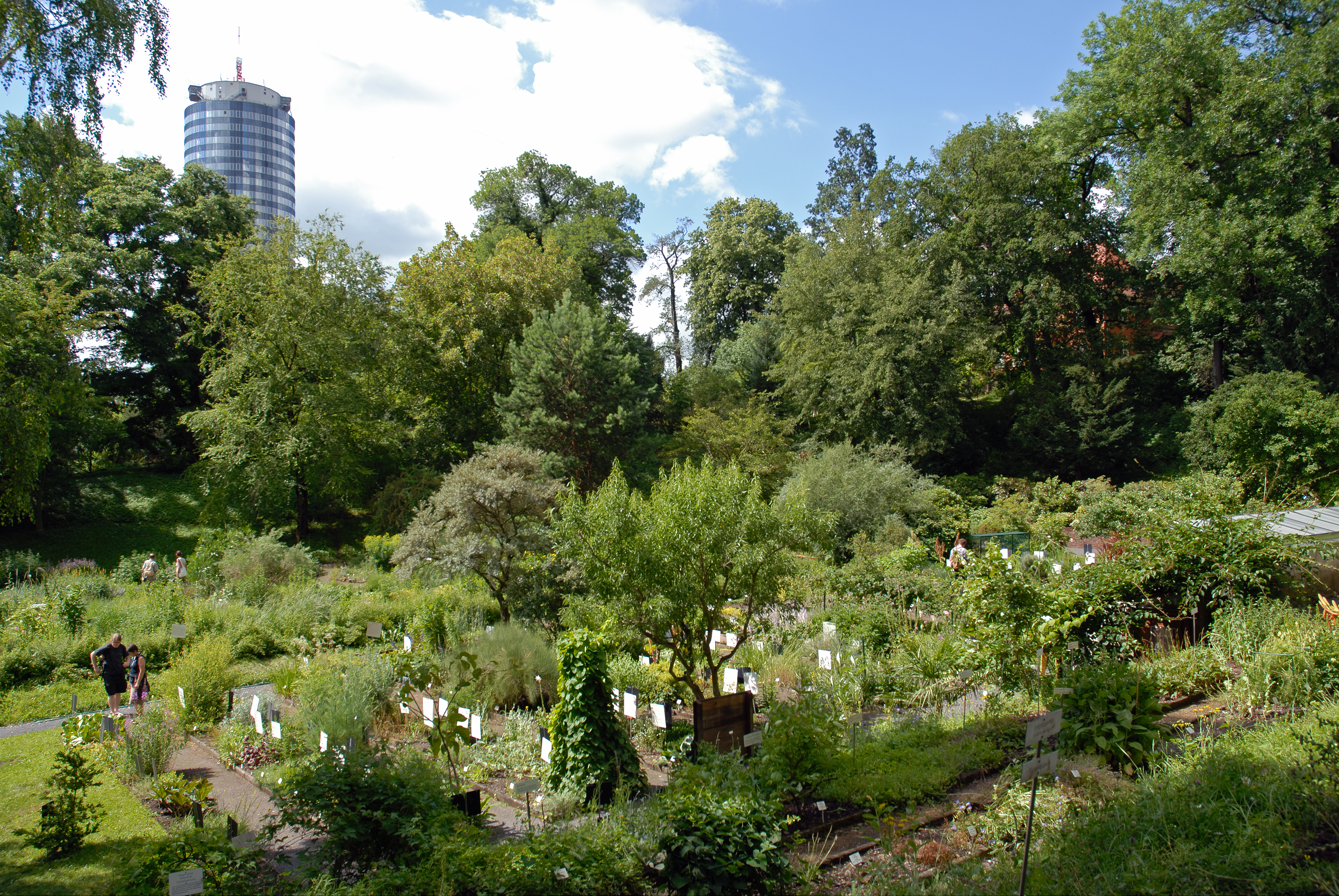 This image shows the botanical garden in Jena.